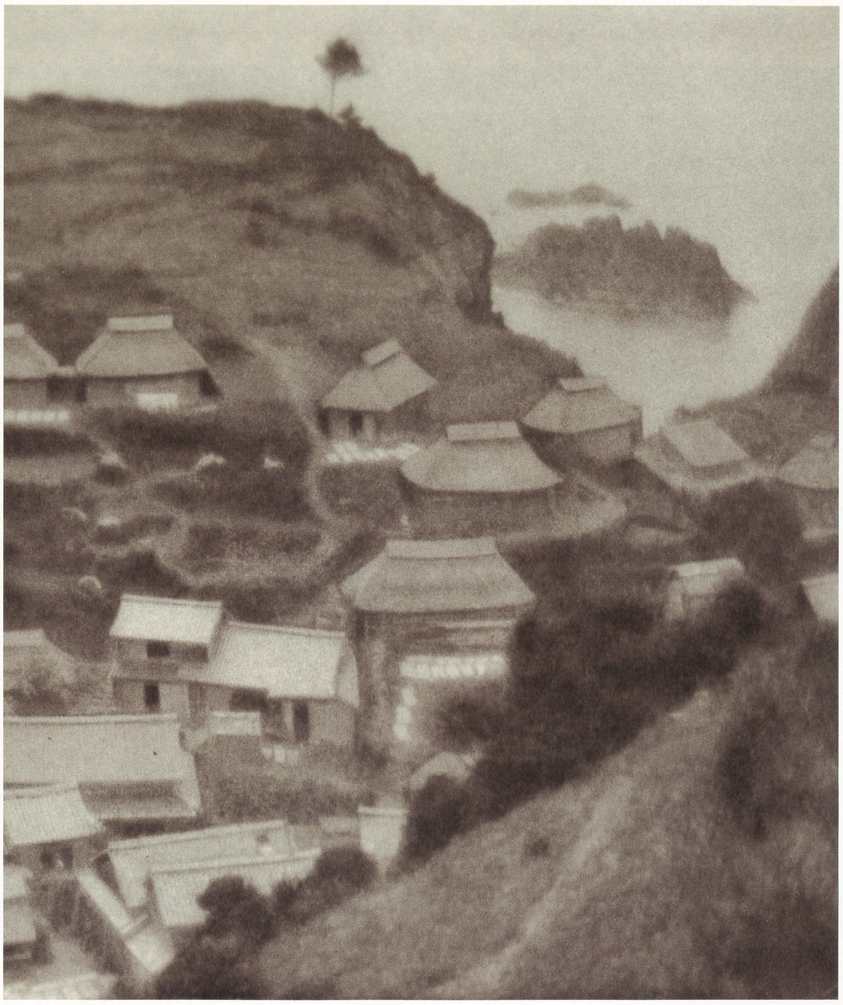 Photograph taken in August 1925 by Teikō Shiotani (鹽谷定好, 1899–1988) of Okidomari (沖泊) in what is now Yunotsu-chō (温泉津町), Shimane Prefecture, Japan. From a print made in 1934, which Shiotani had extensively retouched. Original title: 村の鳥瞰 (Mura no chōkan); a title that has since been used consistently for this (and other photographs that Shiotani took during the same excursion). In English, it has been titled "Bird's-eye view of a village" (and trivial variations on this) and "Aerial view of village". Published in Geijutsu Shashin Kenkyū (藝術寫眞研究 = 芸術写真研究, a long-defunct Japanese photography magazine), October 1934 issue, page 155.